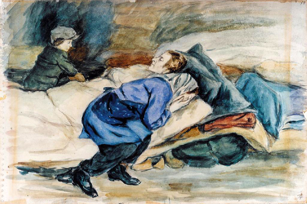 Artwork from the Theresienstadt ghetto